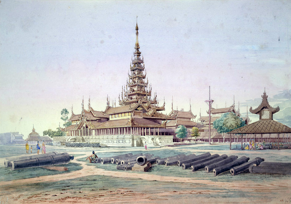 Watercolour with pen and ink of a view of the King's Palace at Amarapura from 'A Series of Views in Burmah taken during Major Phayre’s Mission to the Court of Ava in 1855' by Colesworthy Grant. This album consists of 106 landscapes and portraits of Burmese and Europeans documenting the British embassy to the Burmese King, Mindon Min (r.1853-1878). The mission to Amarapura took place after the Second Anglo-Burmese War in 1852 and the annexation by the British of the Burmese province of Pegu (Bago). It was despatched by the Governor-General of India Lord Dalhousie on the instructions of the East India Company, with the aim of persuading King Mindon to sign a treaty formally acknowledging the extension of British rule over the province. It was headed by Arthur Phayre, with Henry Yule as Secretary. Grant (1813-1880) was sent as official artist and Linnaeus Tripe as photographer. Together with a privately-printed book of notes, Grant's drawings give a vivid account of the journey, and a number were used for illustrations to Yule’s ‘A Narrative of the mission sent by the Governor General of India to the Court of Ava in 1855’ published in 1858. The mission started out from Rangoon (Yangon) and travelled up the Irrawaddy (Ayeyarwady) River to the royal city of Amarapura, founded in 1782. Today, little remains of the royal palace visited by the mission. Grant wrote that the palace 'or ‘Nan-dau,’ was built by Tharawaddee about the year 1838, and with its grounds is believed to cover a space of about quarter of a mile square. The lower part, an elevated terrace, is of brick; the superstructure entirely of wood, and...is gilt...The length of the terrace or basement is about 260 feet...and the height of the spire is said to be 101 cubits...The steps by which the Mission entered the hall of audience are seen, at the near end of the basement.'